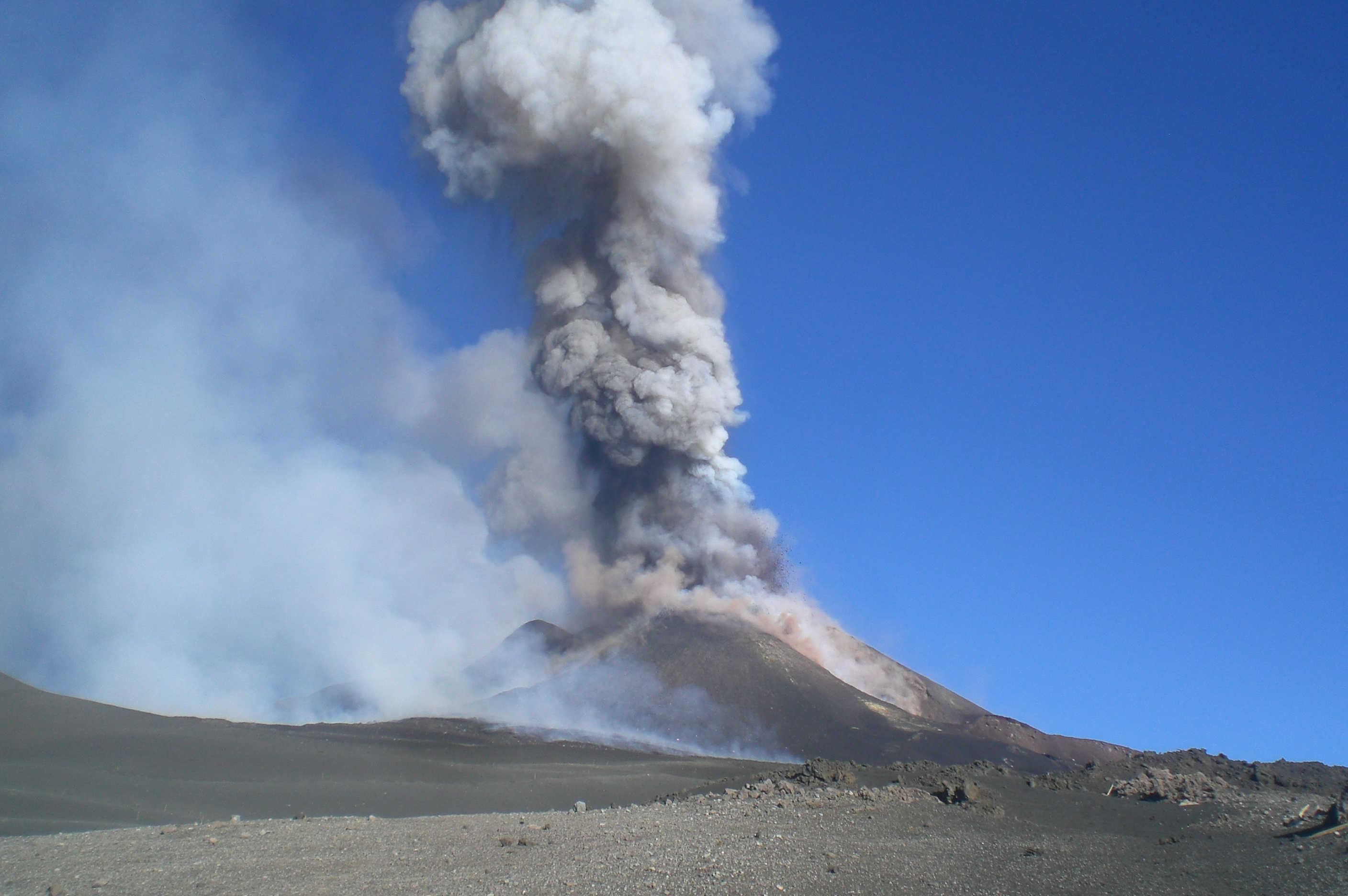 Etna Volcano Paroxysmal Eruption October 26 2013 - Creative Commons by gnuckx